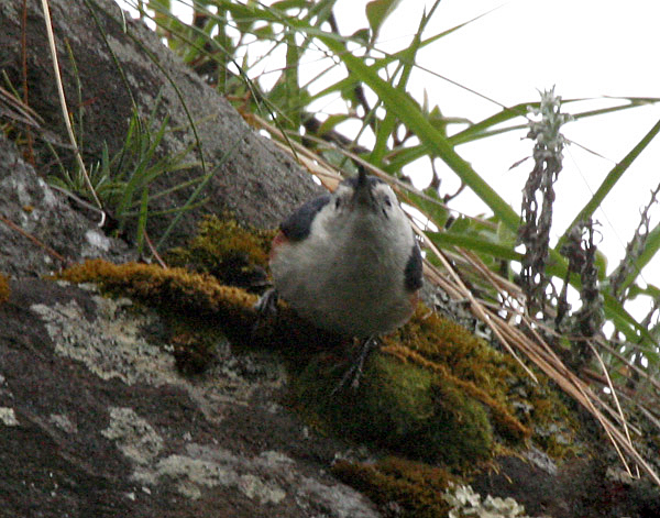 White-cheeked Nutthatch Sitta leucopsis at Kullu - Manali District of Himachal Pradesh, India.